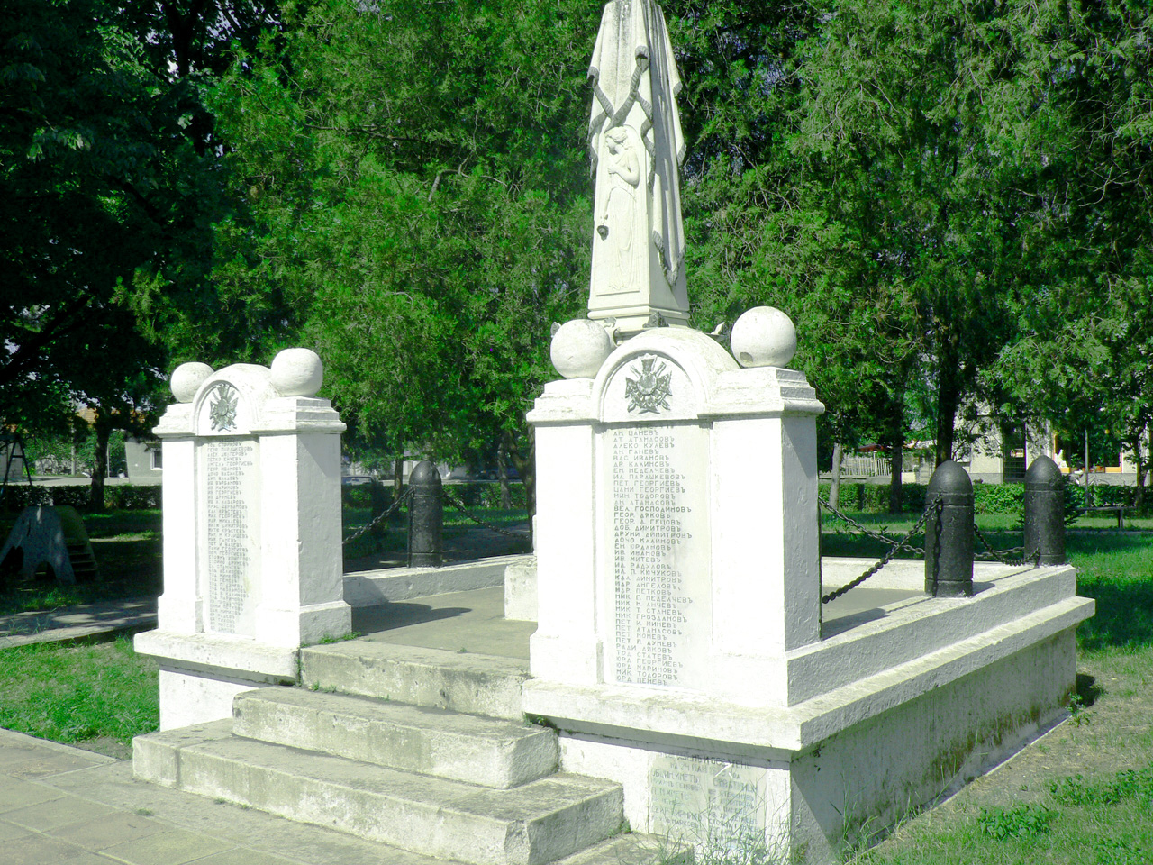 Monument of the citizens from Ryahovo village, died for the Motherland